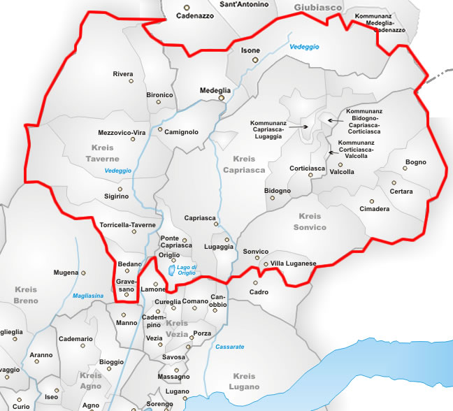 Municipality Bedano *Artist: Tschubby